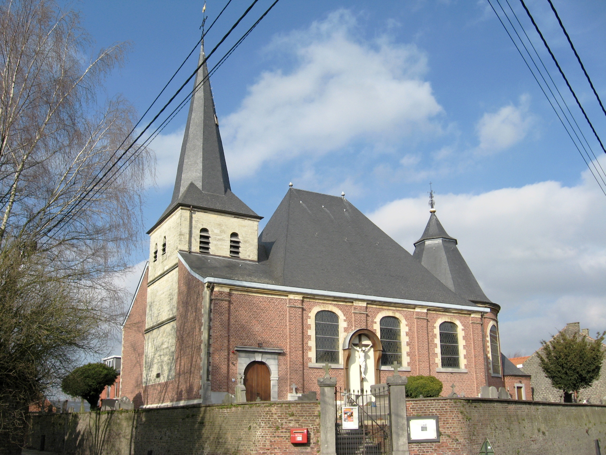 Church of Saint Servatius in Lantin, Juprelle, Liège, Belgium